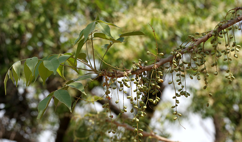 Lannea coromandelica - Wodier Tree, Moi, GURJAN, Jhingan, Shembat/ Shemat, woddiya maram, Indian ash tree, moya, jia, jiola, goddana-mara, mavedi, mohin, godda, gumpina, kuratige, udimara, moi, kaarilav, kaladam, karas, karayam, otiyan-maram, uthi, mendashingi, shemat, shimati, shinti, hallunde, indramai, ajashringi, jhingini, oti or ajasrngi in Mahavir Harina Vanasthali National Park, Hyderabad, India.